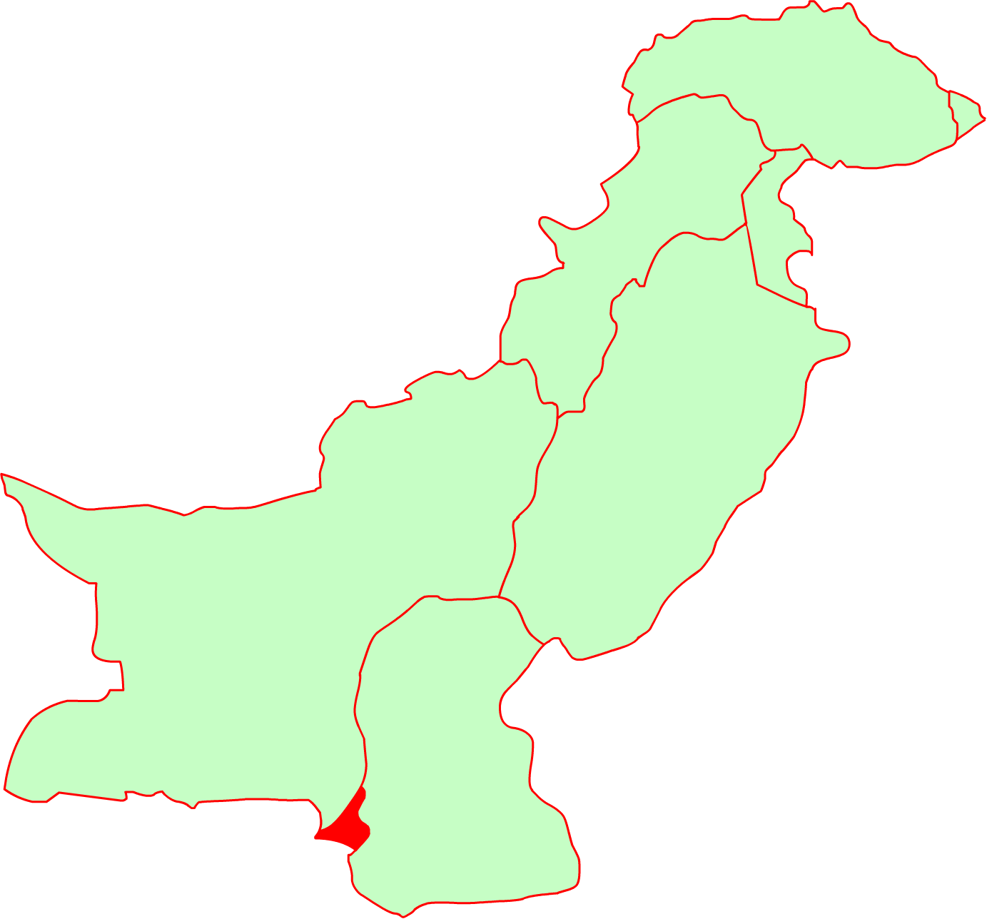 location of karachi